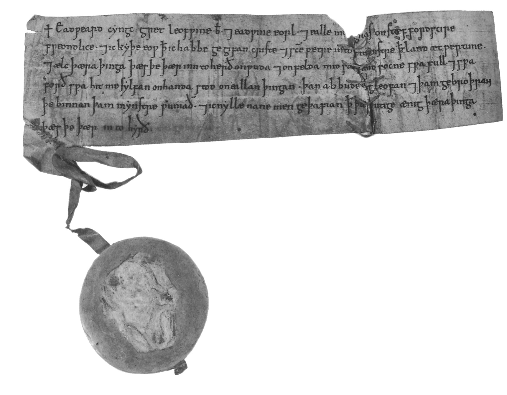 A sealed writ of Edward the Confessor, issued in favour of Westminster Abbey.